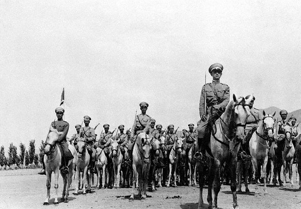 Iranian Cavalery, 1930.